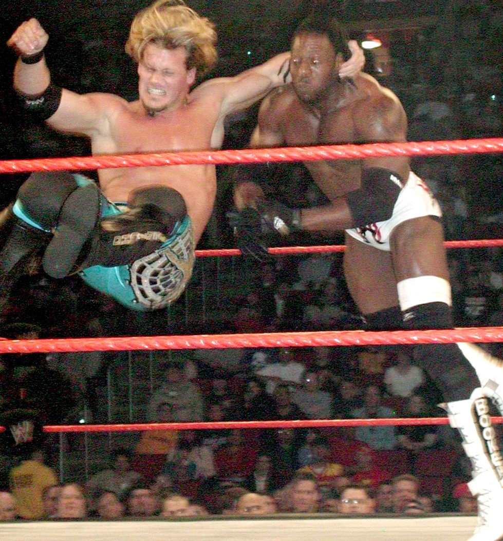 Chris Jericho hitting a Bulldog on Booker T. Key Arena Seattle, WA March 31en:2003.